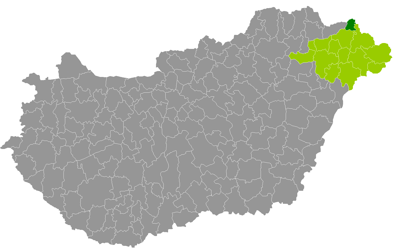 Location of Záhony District, Szabolcs-Szatmár-Bereg, Hungary